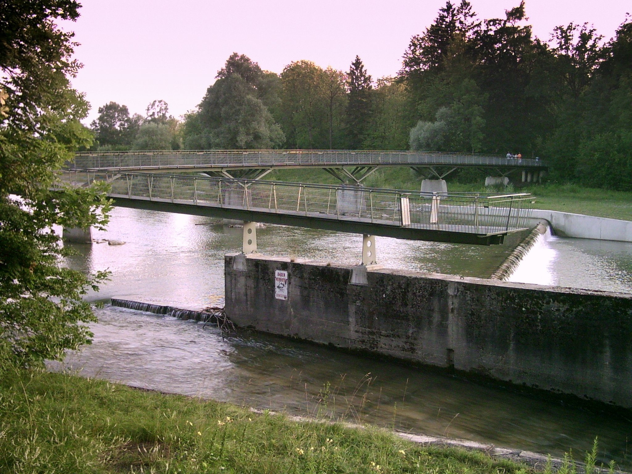 The line of the waterfall's edge through the river marks the way of the tunnel, in which the Auer Mühlbach crosses Isar river bevore it "springs" near Marienklause south of Tierpark Hellabrunn in the southeast of Munich, Bavaria, Germany. 10 m³/s of water are being taken from the Isar-canal and led in to the eastern banks where the Auer Muehlbach starts its six km journey through the city